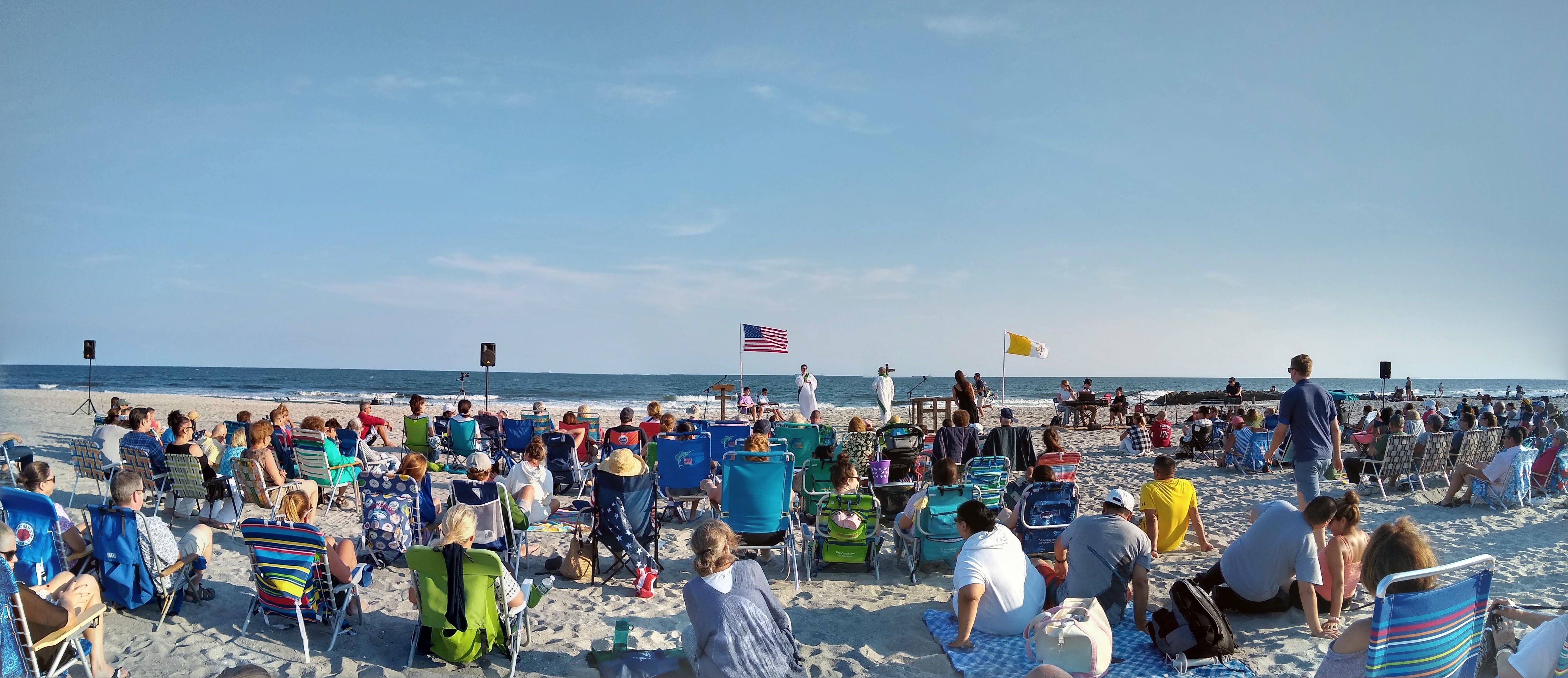 A Catholic beach Mass held in Long Beach, New York.